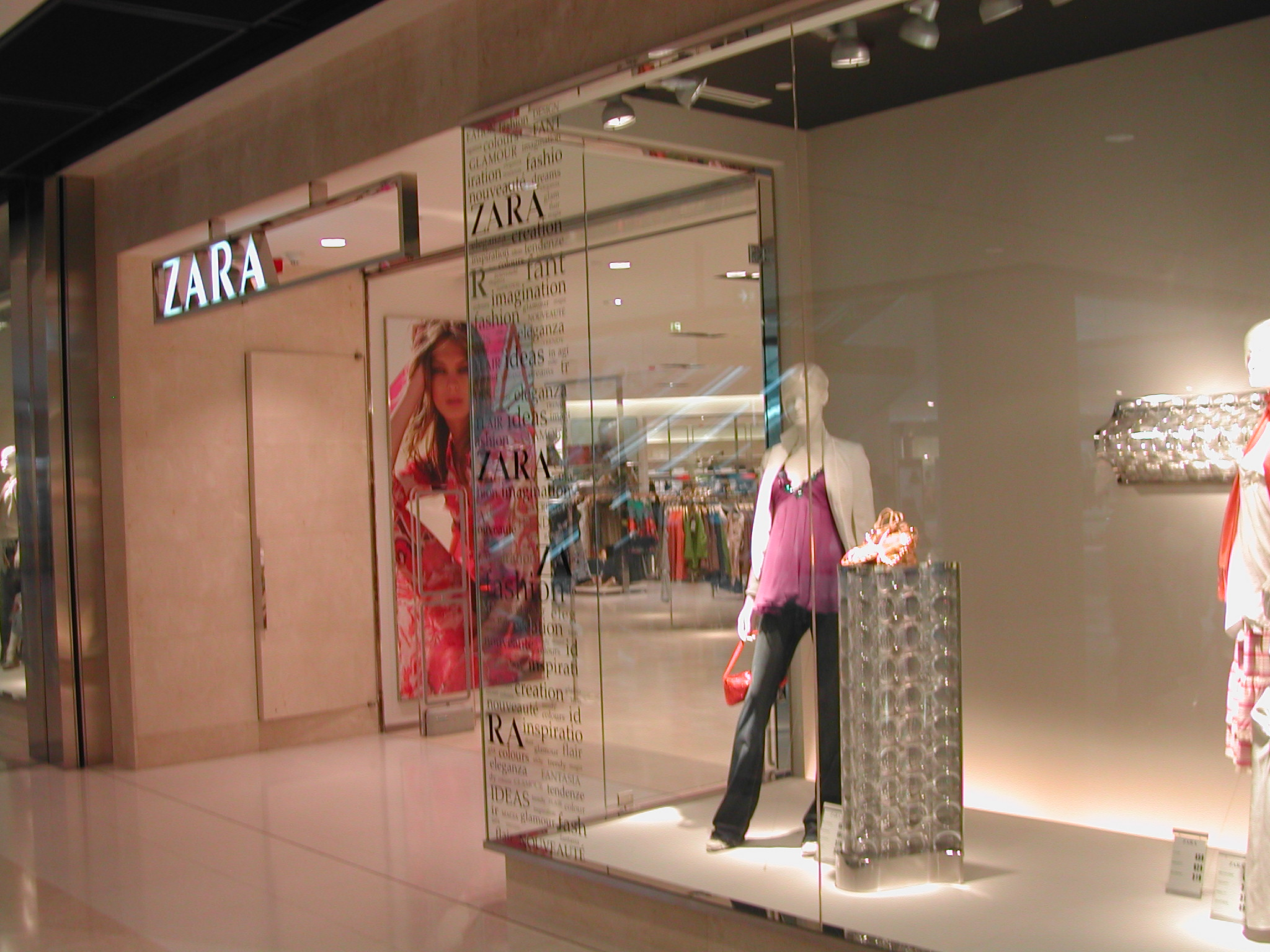 Zara boutique in IFC Central Hong Kong